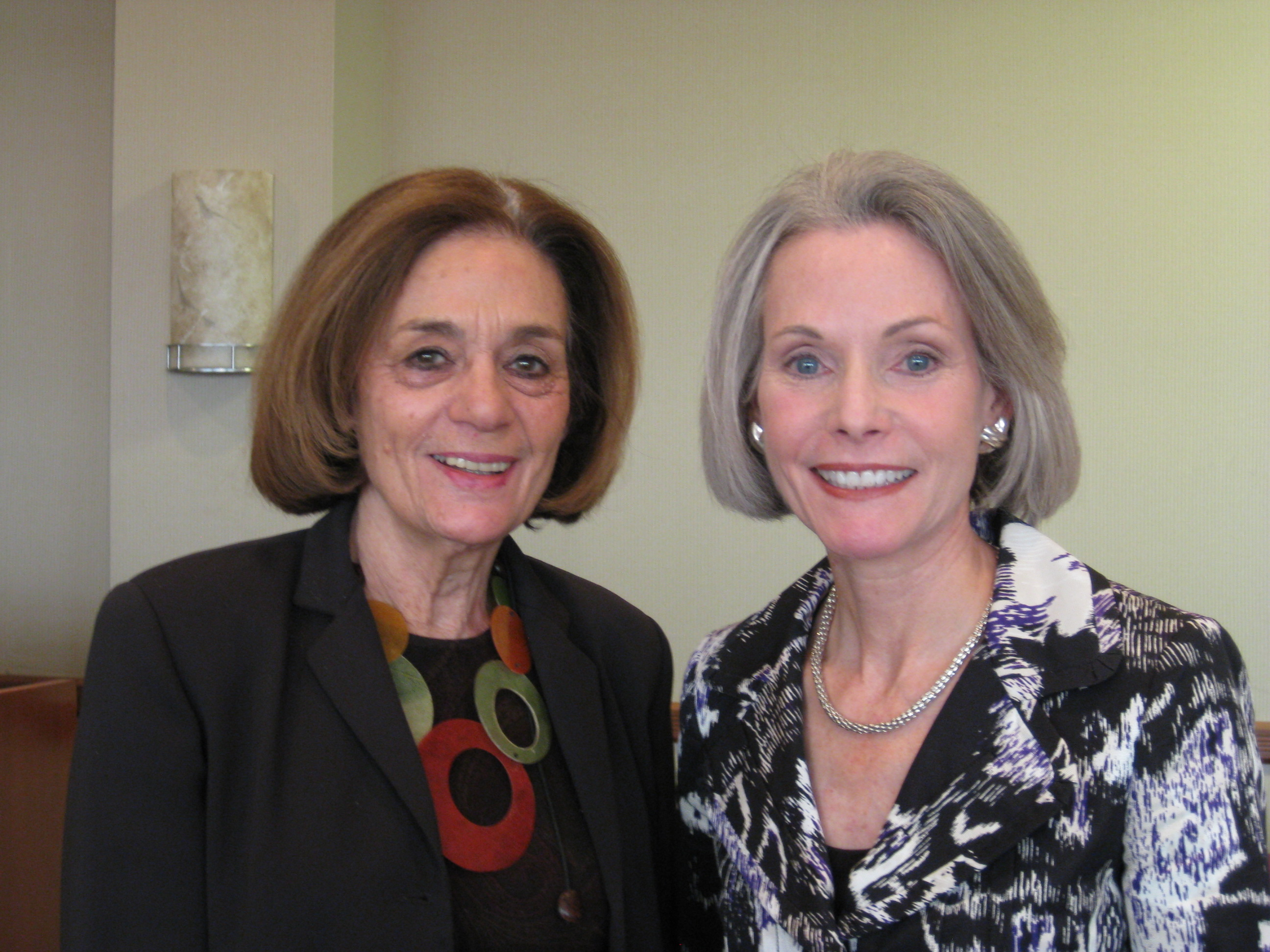 Schemel Forum director Sondra Myers with Jill Dougherty.